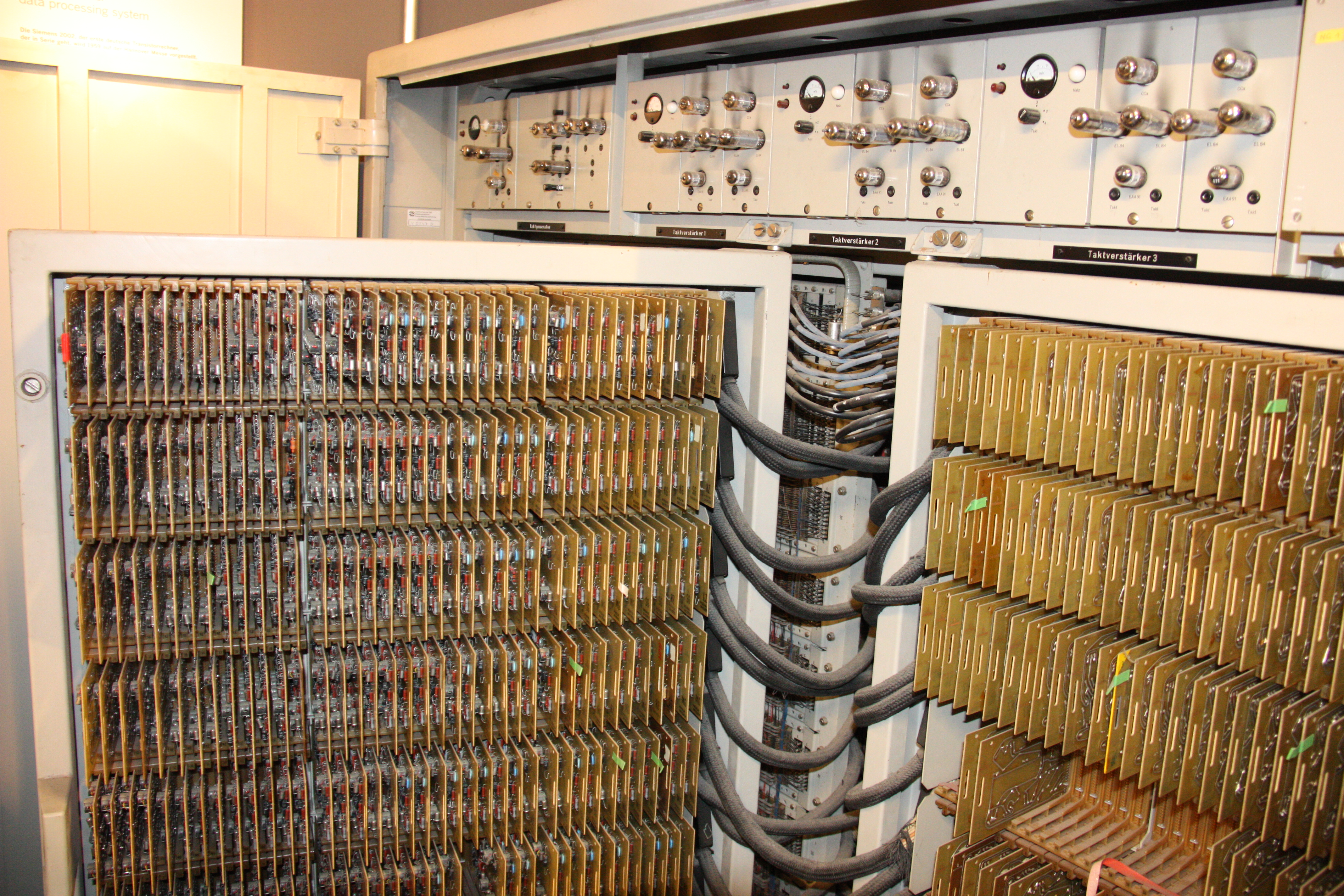 Opened main frame of the Siemens 2002 at Computermuseum der Fachhochschule Kiel